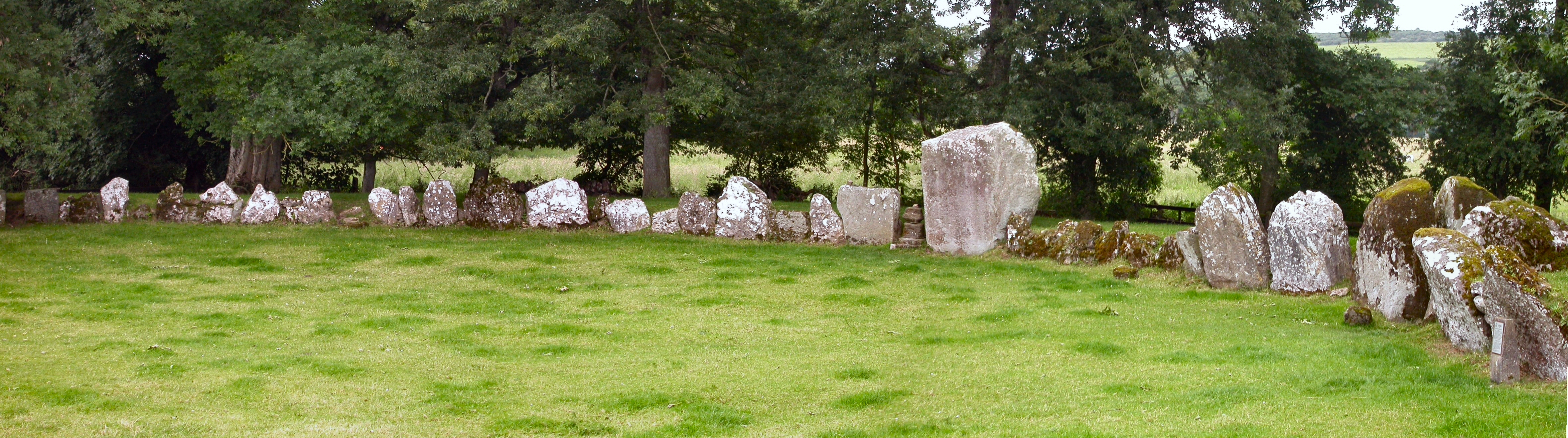 Ciorcal Liag na Gráinsí, Co. Luimnigh, 2007